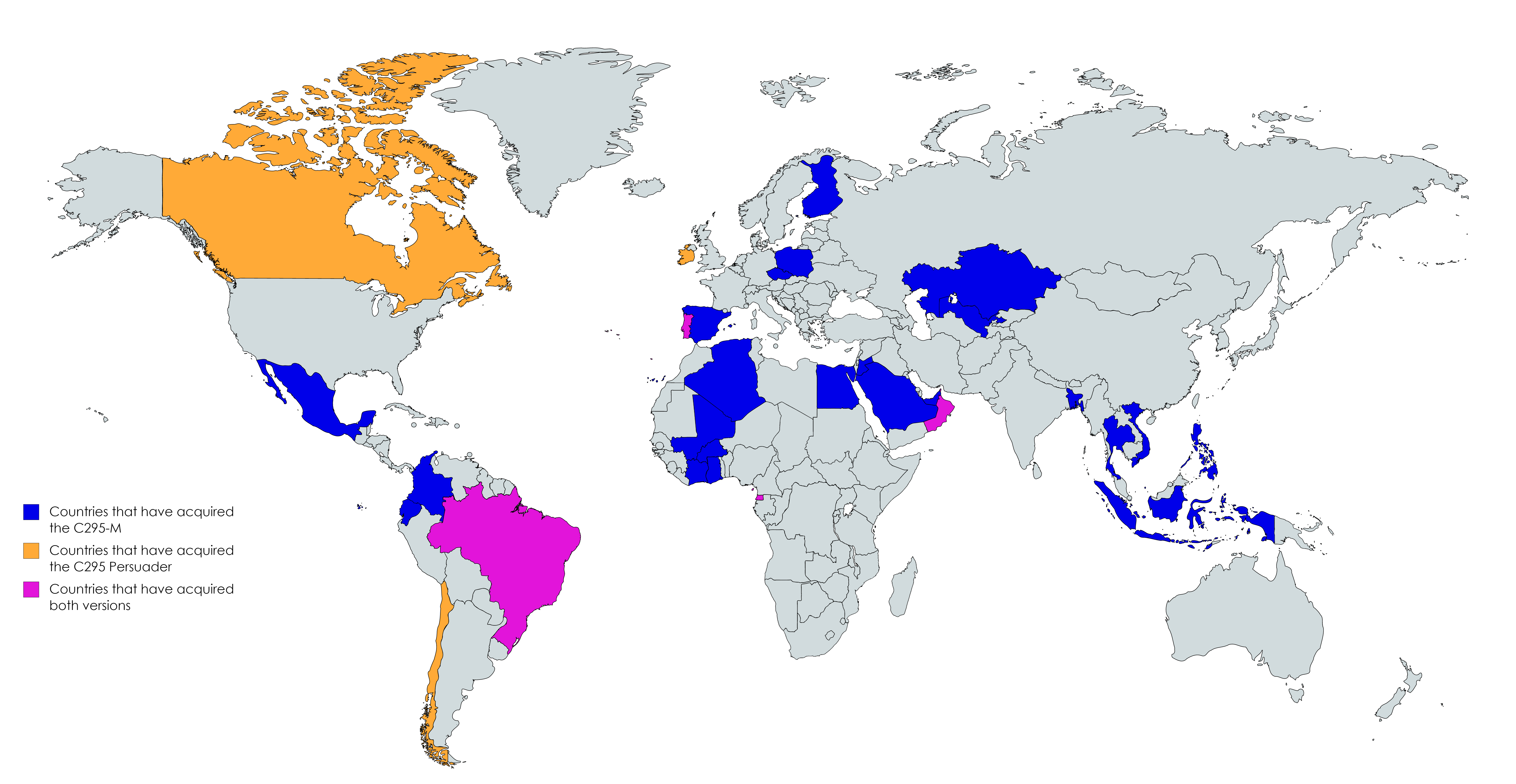 This map shows the operators of the C295 across the world Created with